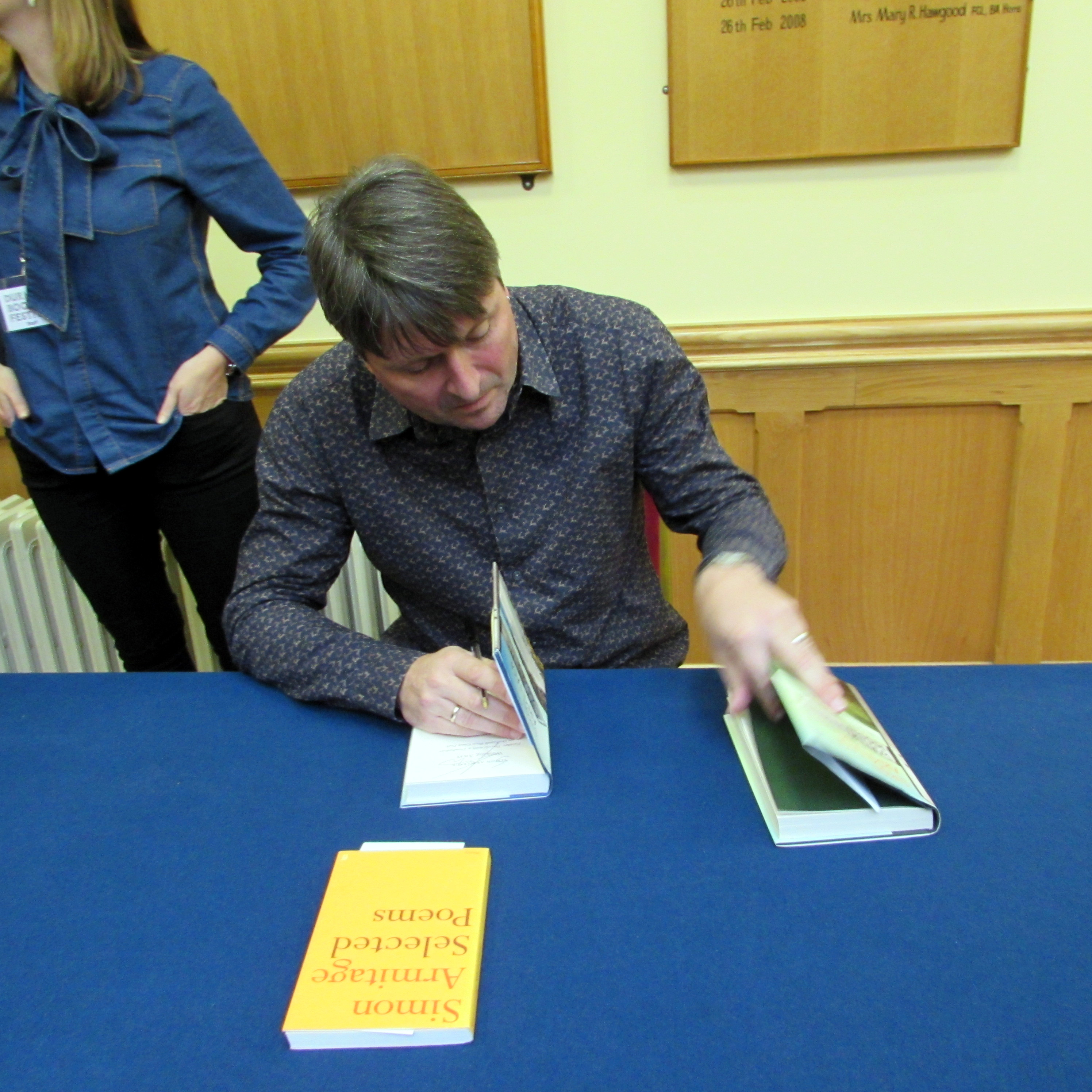 Simon Armitage